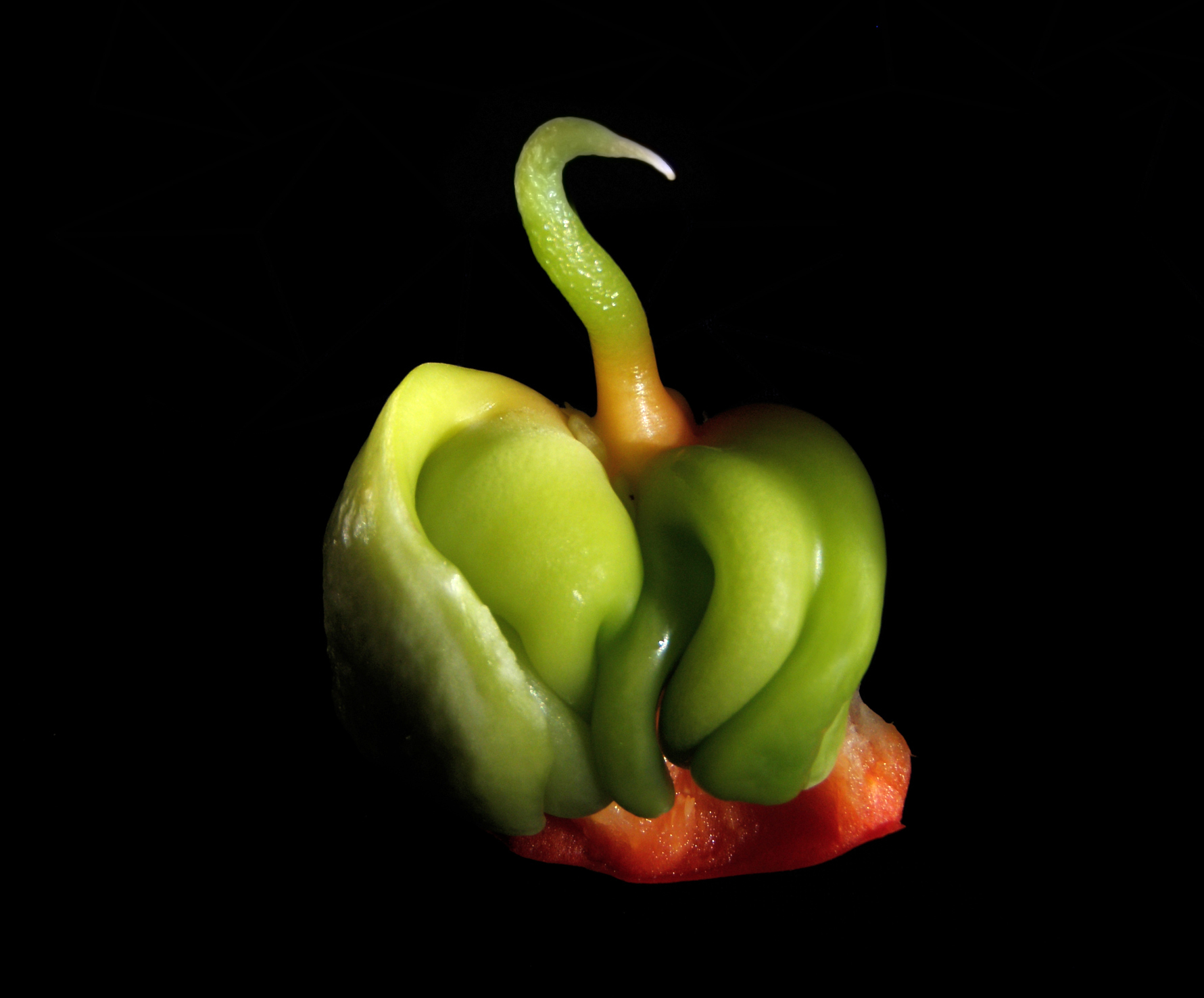 Baby bell pepper, Capsicum annuum which was found inside an adult pepper